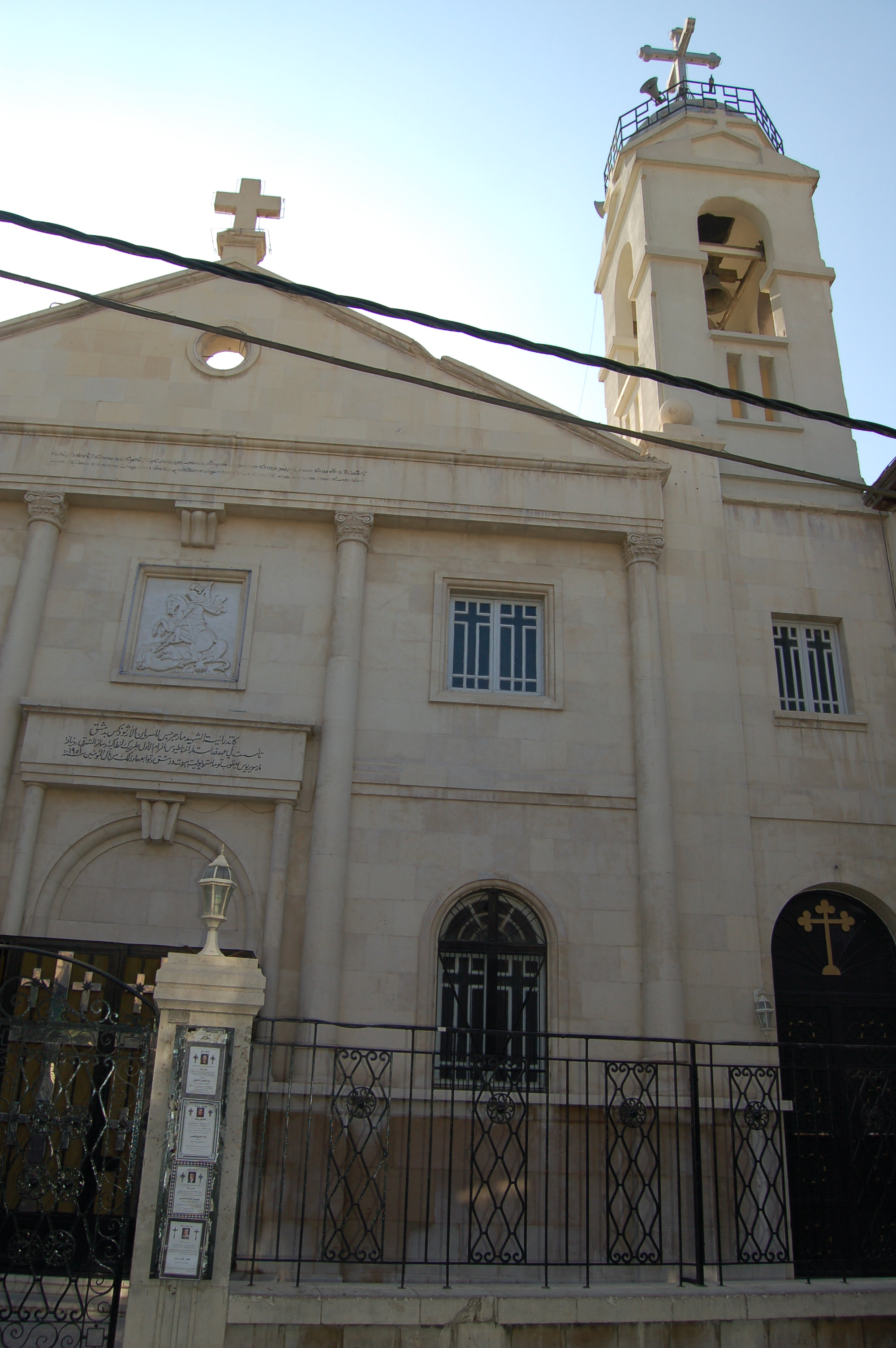 Catedral siríaca en Damasco